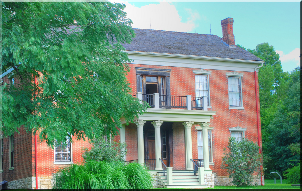 The Anderson House in Lexington, Missouri. This home is listed on the National Register of Historic Places.